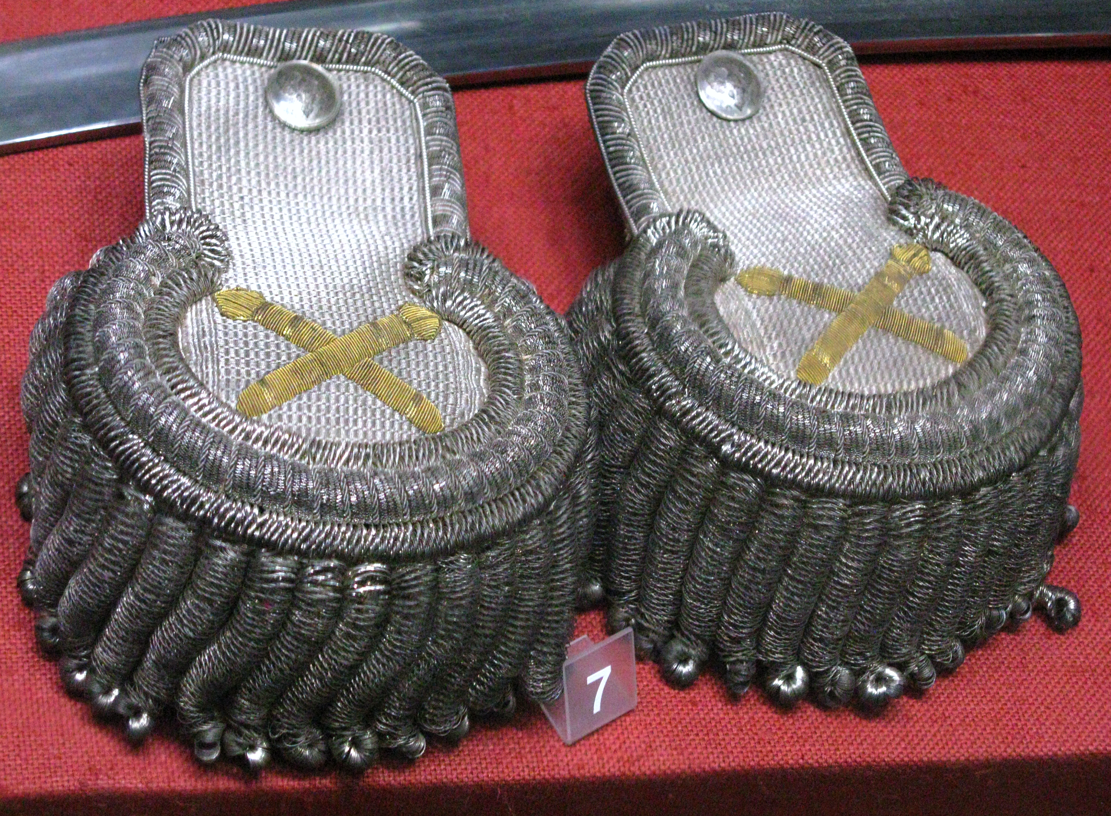 Epaulettes of commander-in-chief of November Uprising Jan Skrzynecki